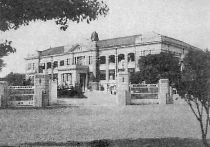 Taiwan Army Headquarters of IJA(Imperial Japanese Army)